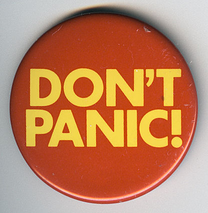 Don't Panic is a phrase used in the book The Hitchhiker's Guide to the Galaxy by Douglas Adams. The badge was given away with the 1984 computer game of the same name.